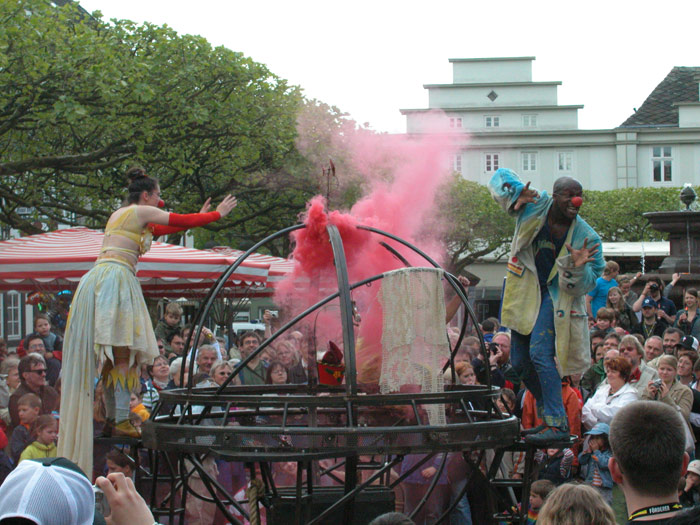 8. Internationales Straßentheaterfestival in Holzminden 2005